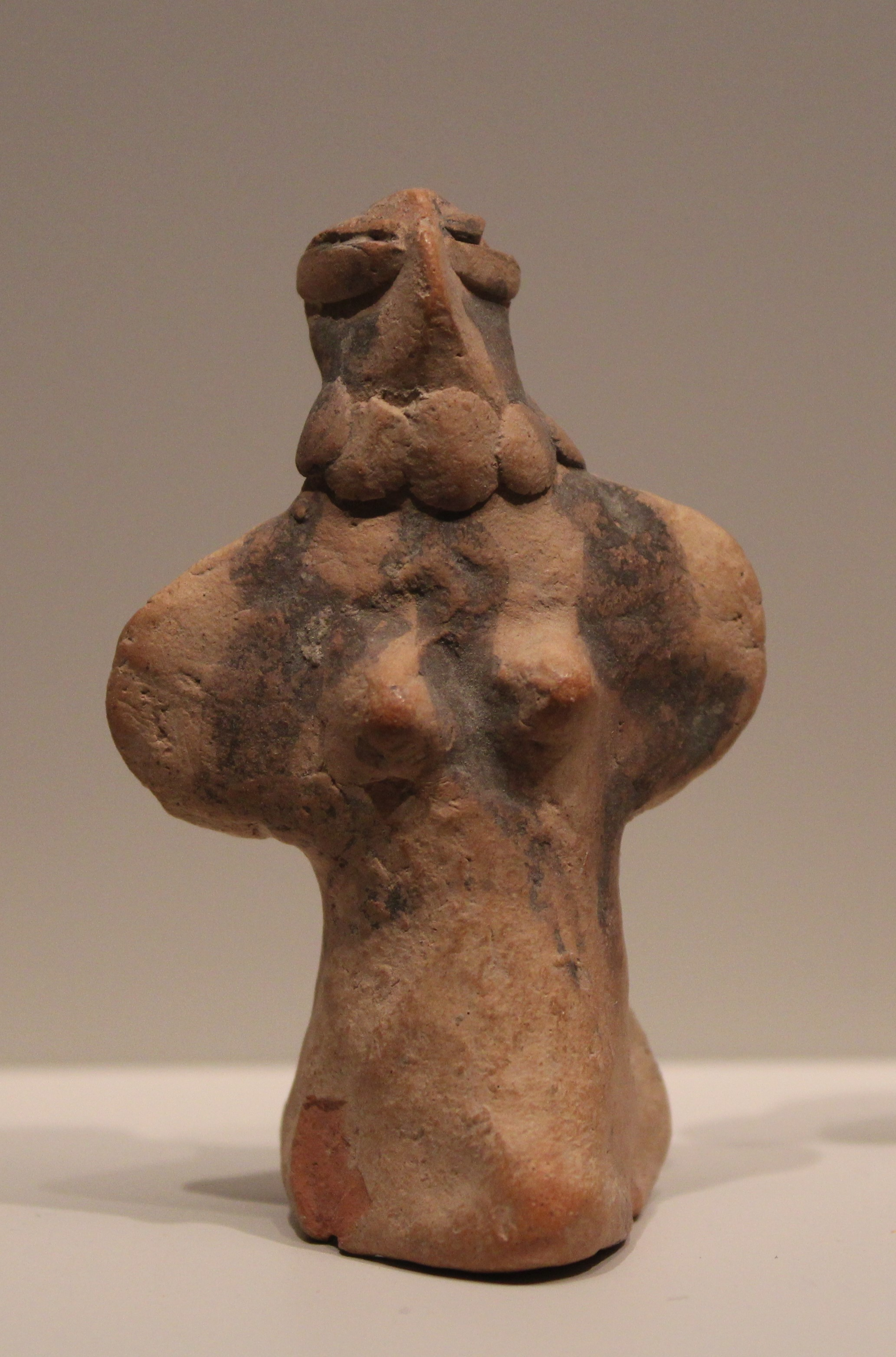 Human figurine, clay, from Mundigak (Afghanistan), period IV, c. 2700 BC. Musée Guimet.